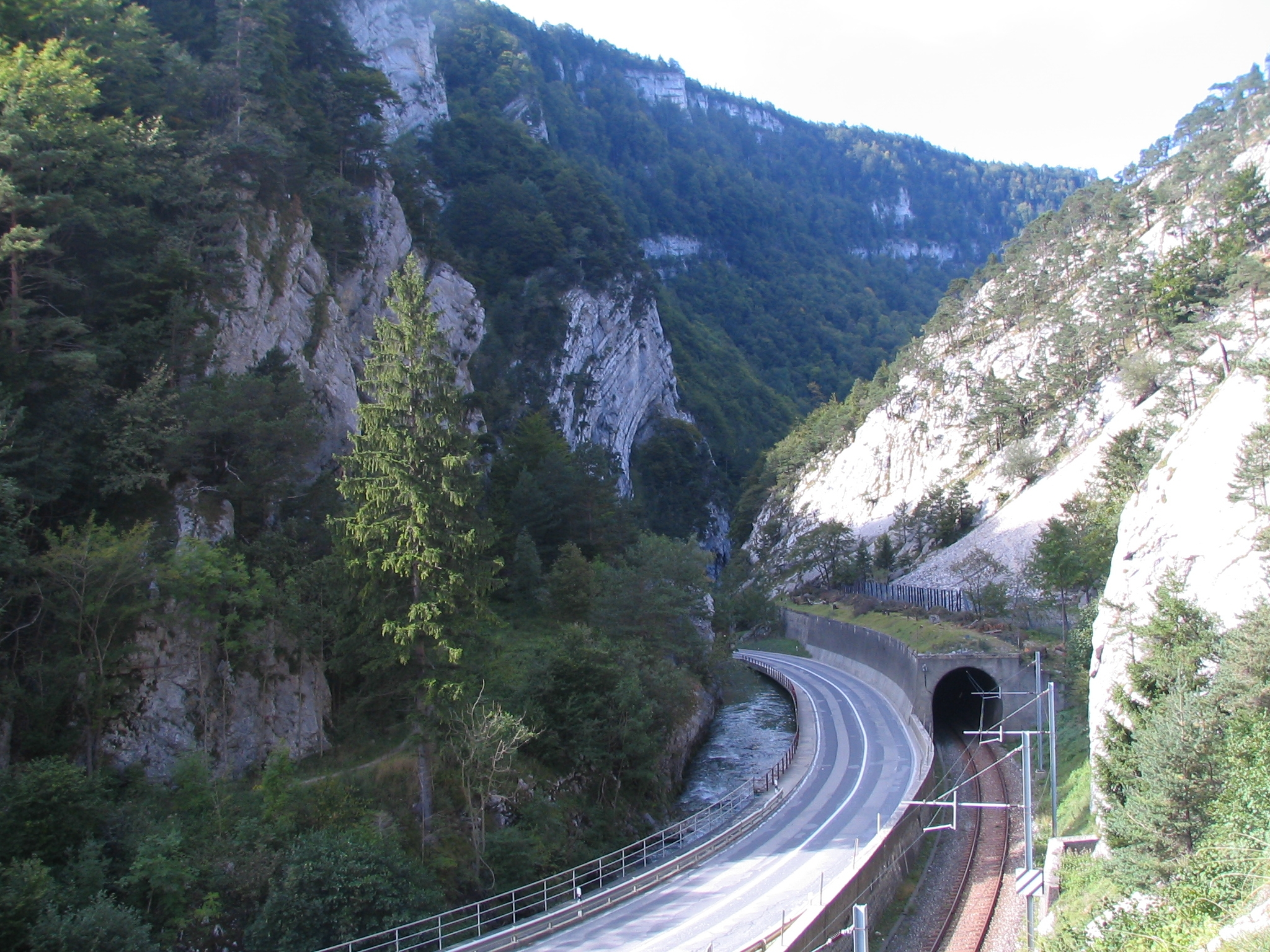 Gorges de Court